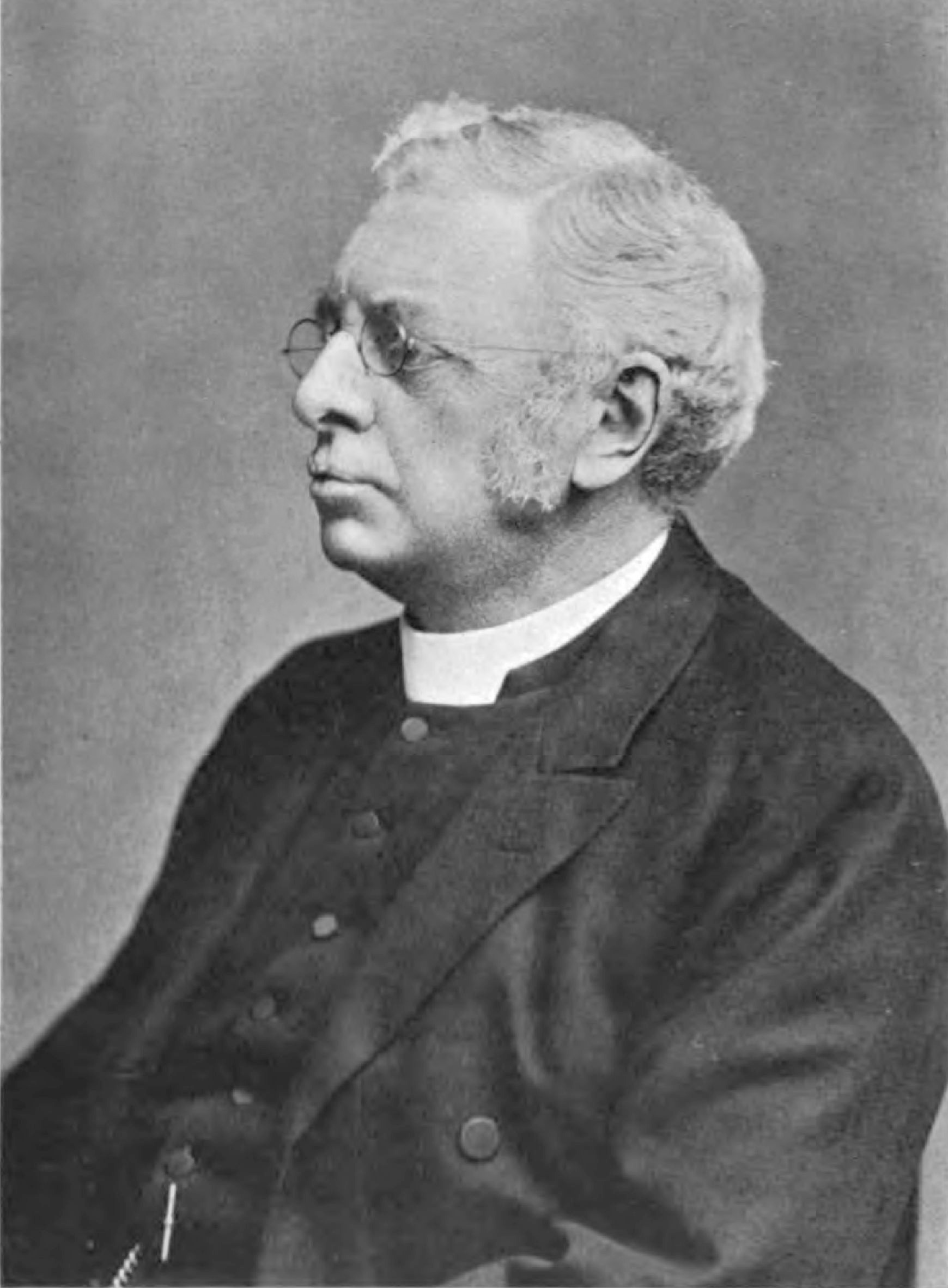 John Troutbeck was a Minor Canon of Westminster Abbey and Chaplain in Ordinary to Queen Victoria whose renown rests on his translation of various continental choral texts